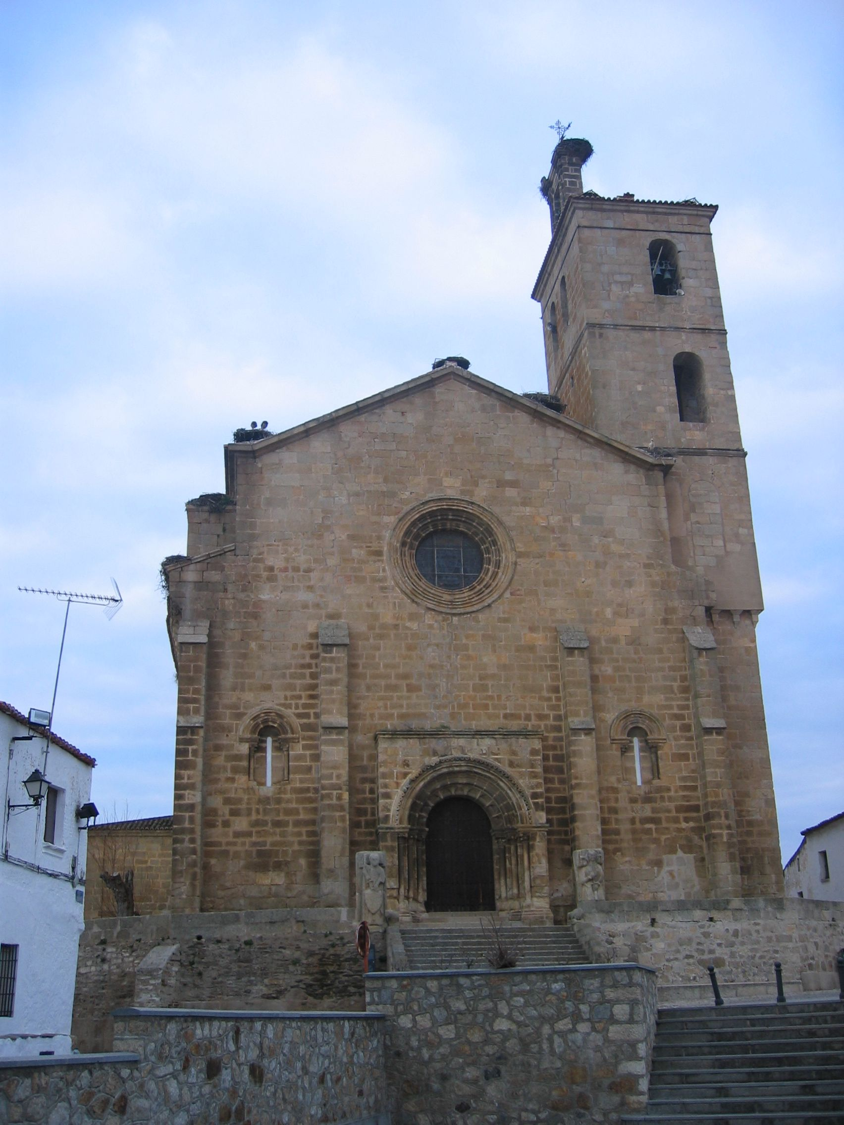 City of Alcántara (Spain)